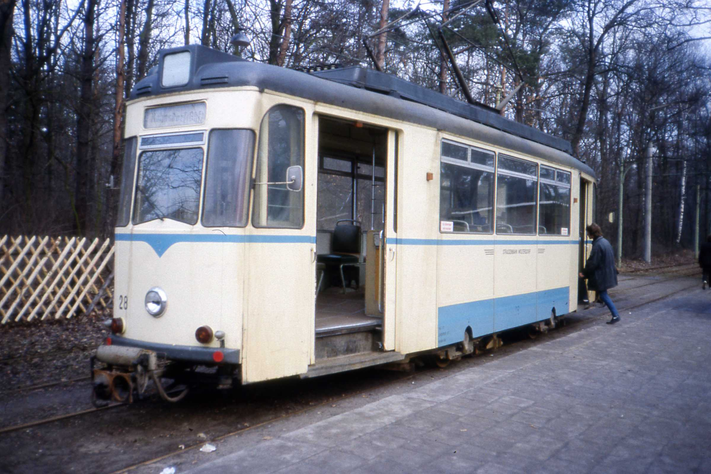 A Gotha car 28 has come down the hill from Woltersdorf to the western terminus at Rahnsdorf Station, a stub which requires double-ended cars, unlike the Schoeneiche system which had turning circles. Surprisingly, nearly 20 years later, the same trams are still running. Perhaps though the state of the track is a bit better: at that time, this little tram bucked and bounced so fiercely on the way down through the forest that I was sure we were going to derail. This former Dessau tram was numbered 30 in the Woltersdorf fleet until it became 28 in 1987.